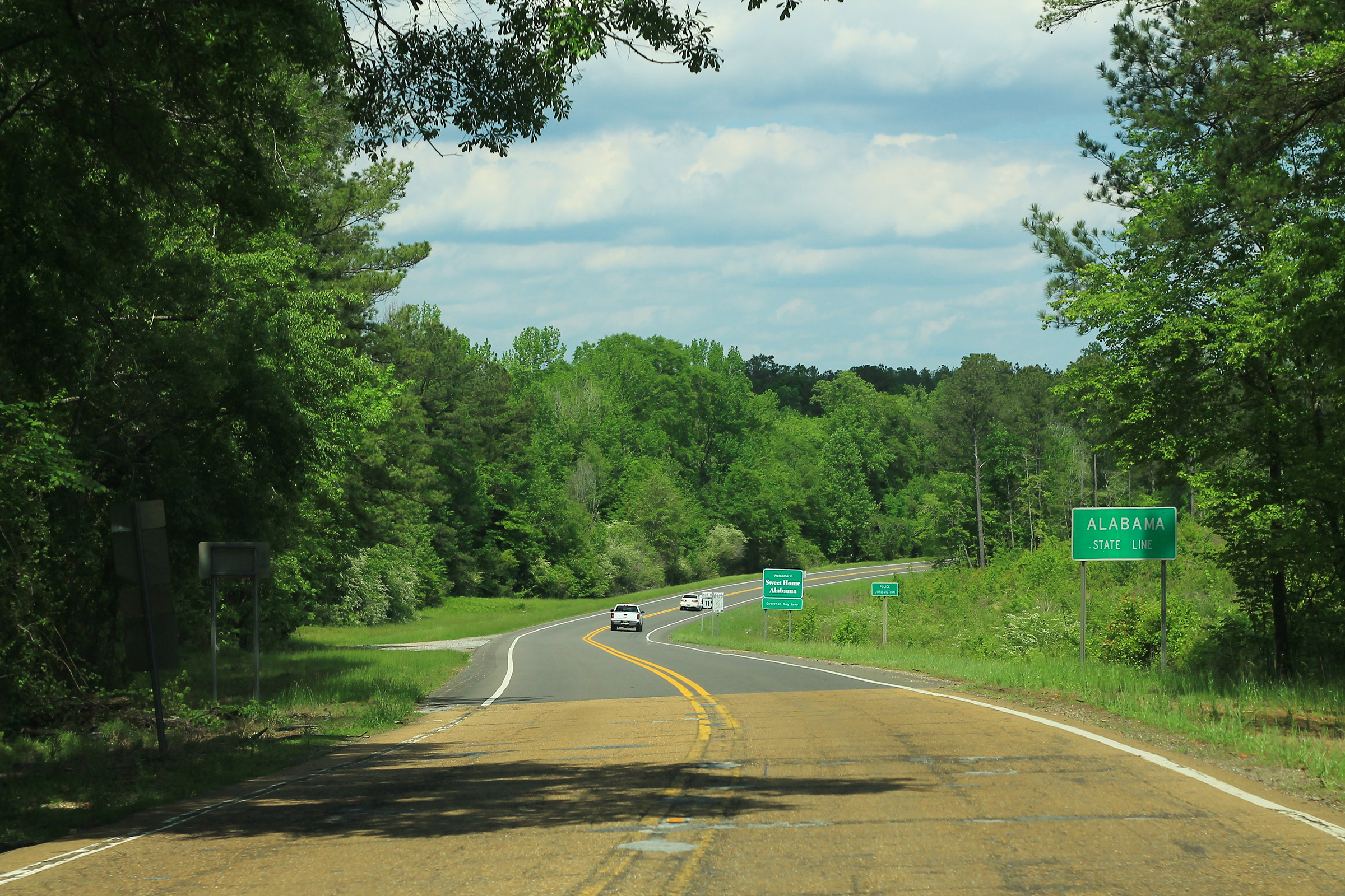 US11 North US80 East - Alabama State Line